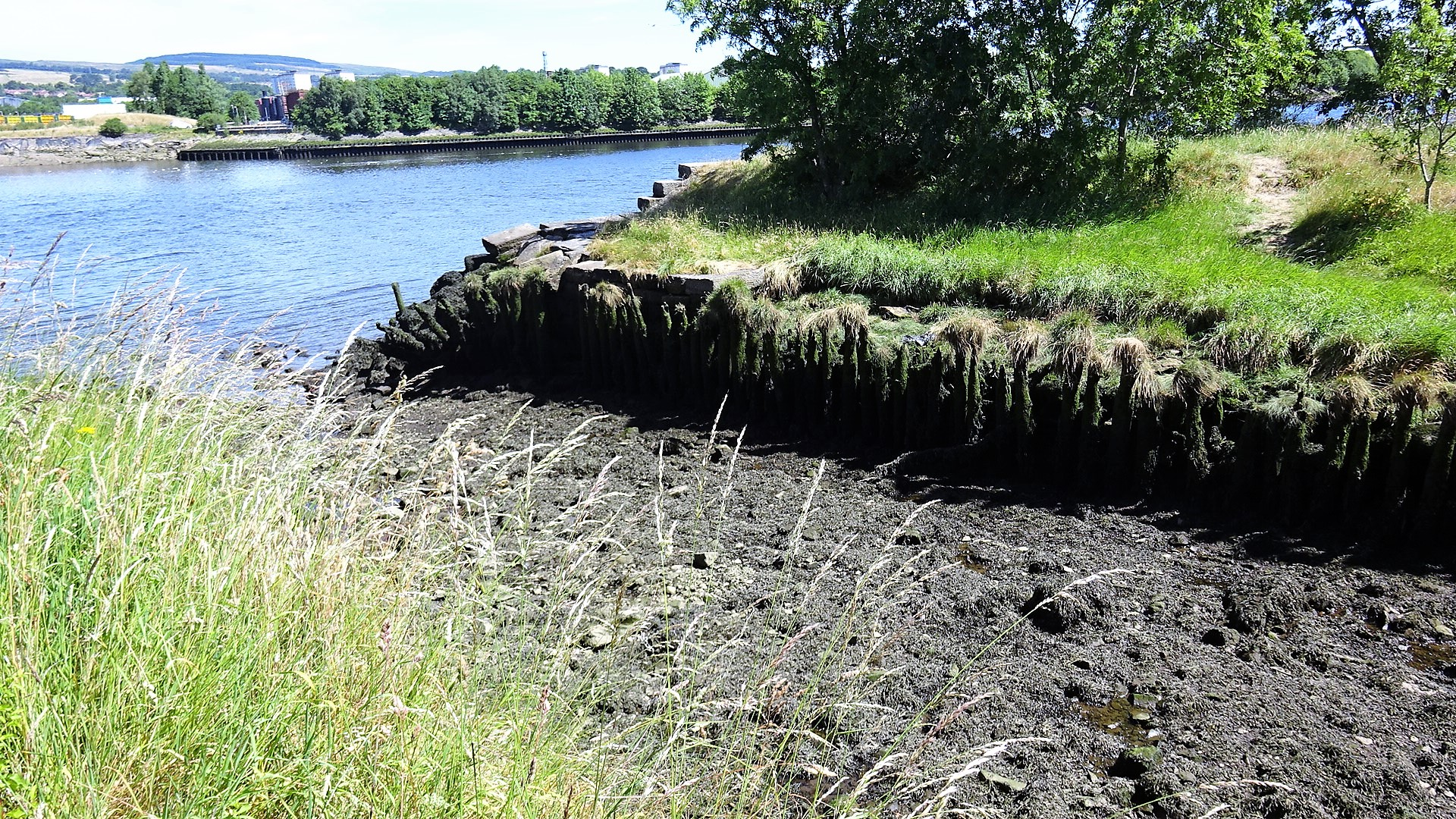 The old Park Quay basin, River Clyde, Erskine, Scotland.